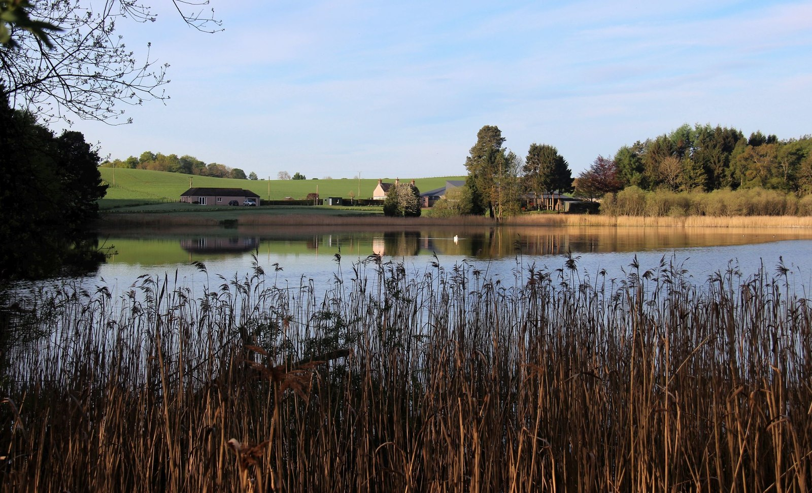 Rae Loch